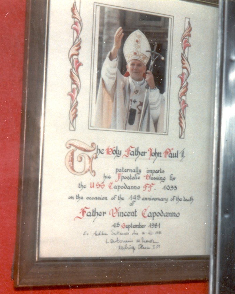 This photo shows the official document recording